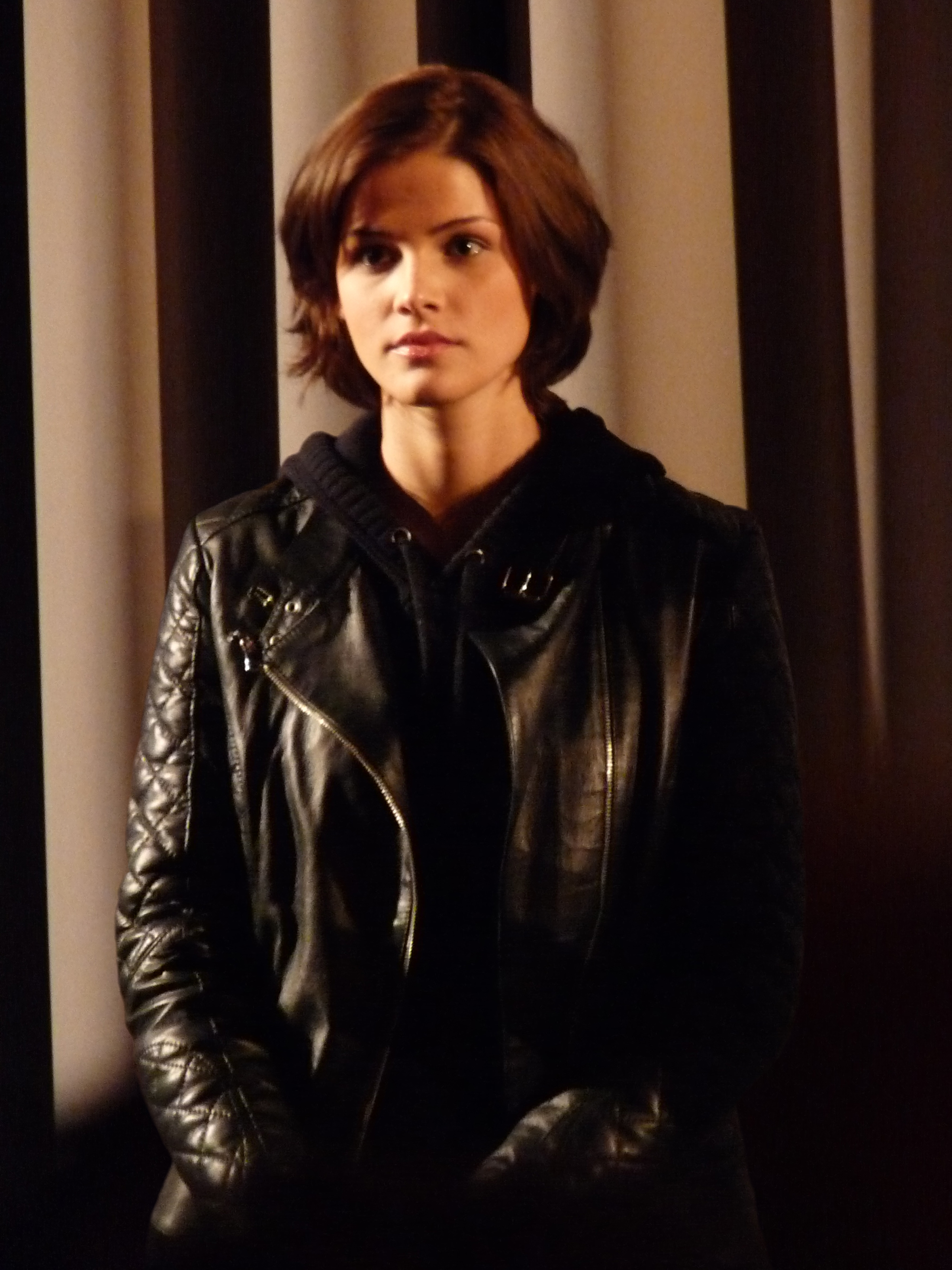 Lisa Tomaschewsky at the premiere of the movie Heute bin ich blond in Münster, Germany